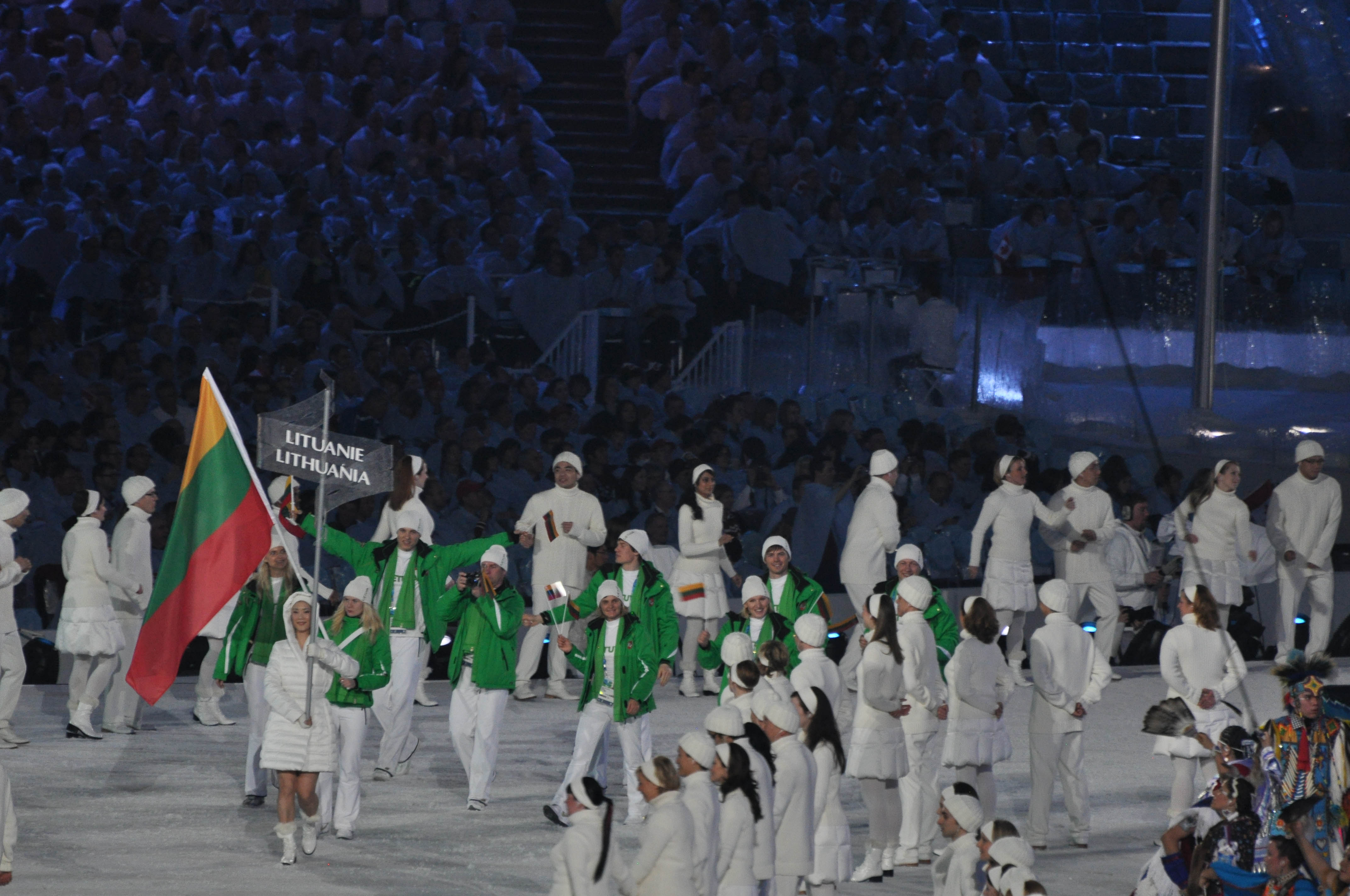 2010 Opening Ceremony - Lithuania entering